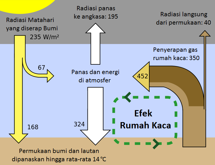 Indonesia version of Image:Greenhouse Effect.svg